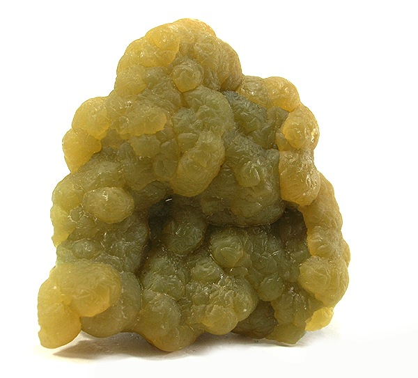 Cadmium, Smithsonite Locality: Dam Project, near Hezhou City, Guangxi Province, China Size: small cabinet, 6.9 x 6 x 2.4 cm Cadmium Smithsonite These remarkable smithsonites are the best I have seen over 10- years of watching a piece or two per year surface on the market, presumably stashed years ago and now coming to light as a small lot I picked up just before Tucson. I am NOT aware of recent mining for these, nor have I ever seen quantity, though I have sold 4 -5 of them in the past decade. This piece is by far and away the best of the lot. It has a quality to it that could compete with the best cadmian-rich material from Arkansas' classic Philadelphia Mine in Rush County, and more crystal structure as you can see - it is not truly botryoidal as might be smithsonite from those other locales.